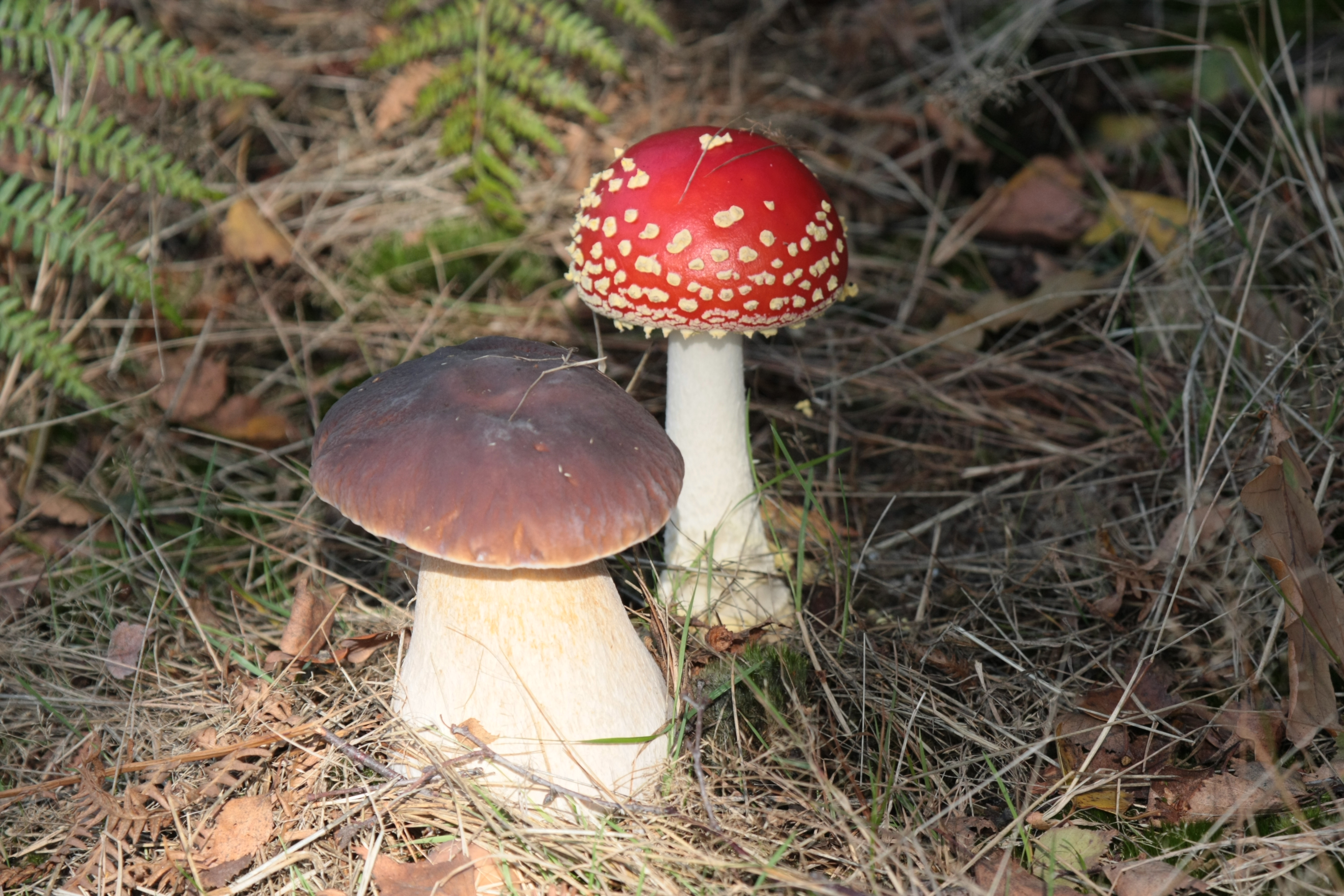 fly agaric and porcino